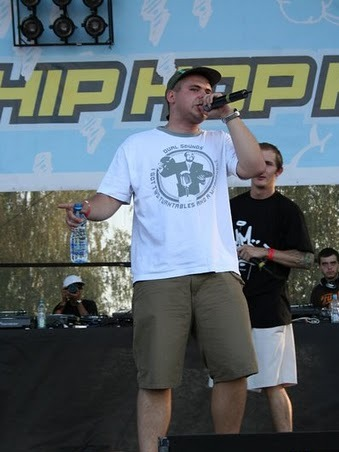 Polish rapper Diox